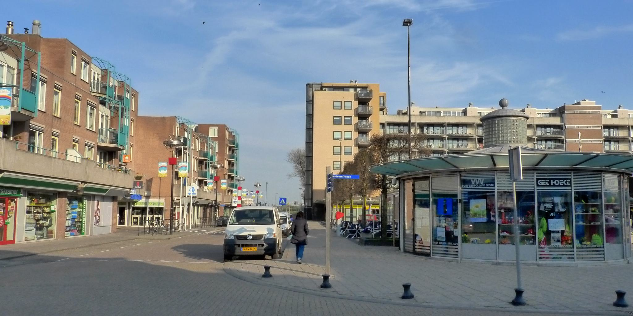 Town centre of Hoek van Holland.